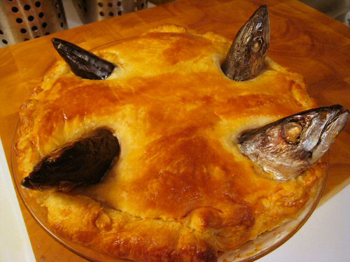 A Stargazy pie Get the full scoop